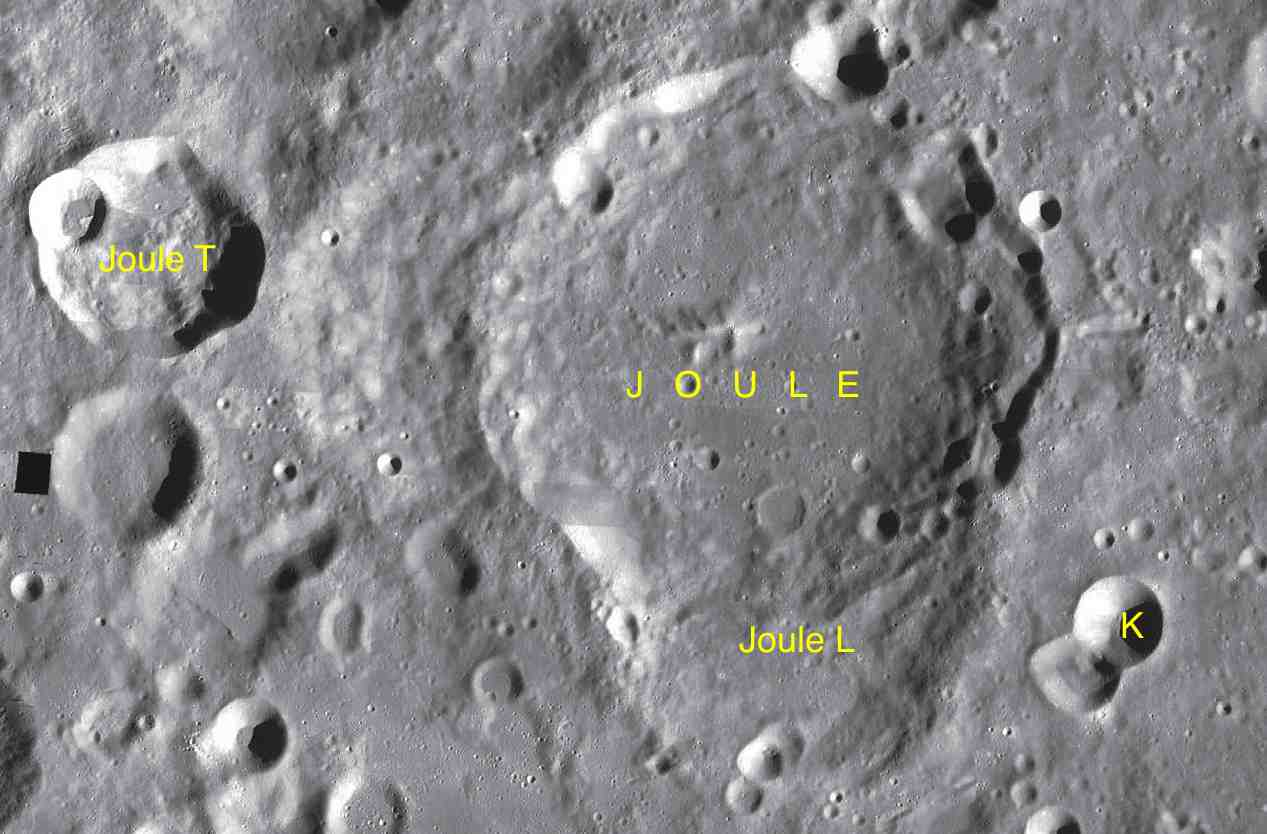 Part of the chart LAC-52 used for the presentation